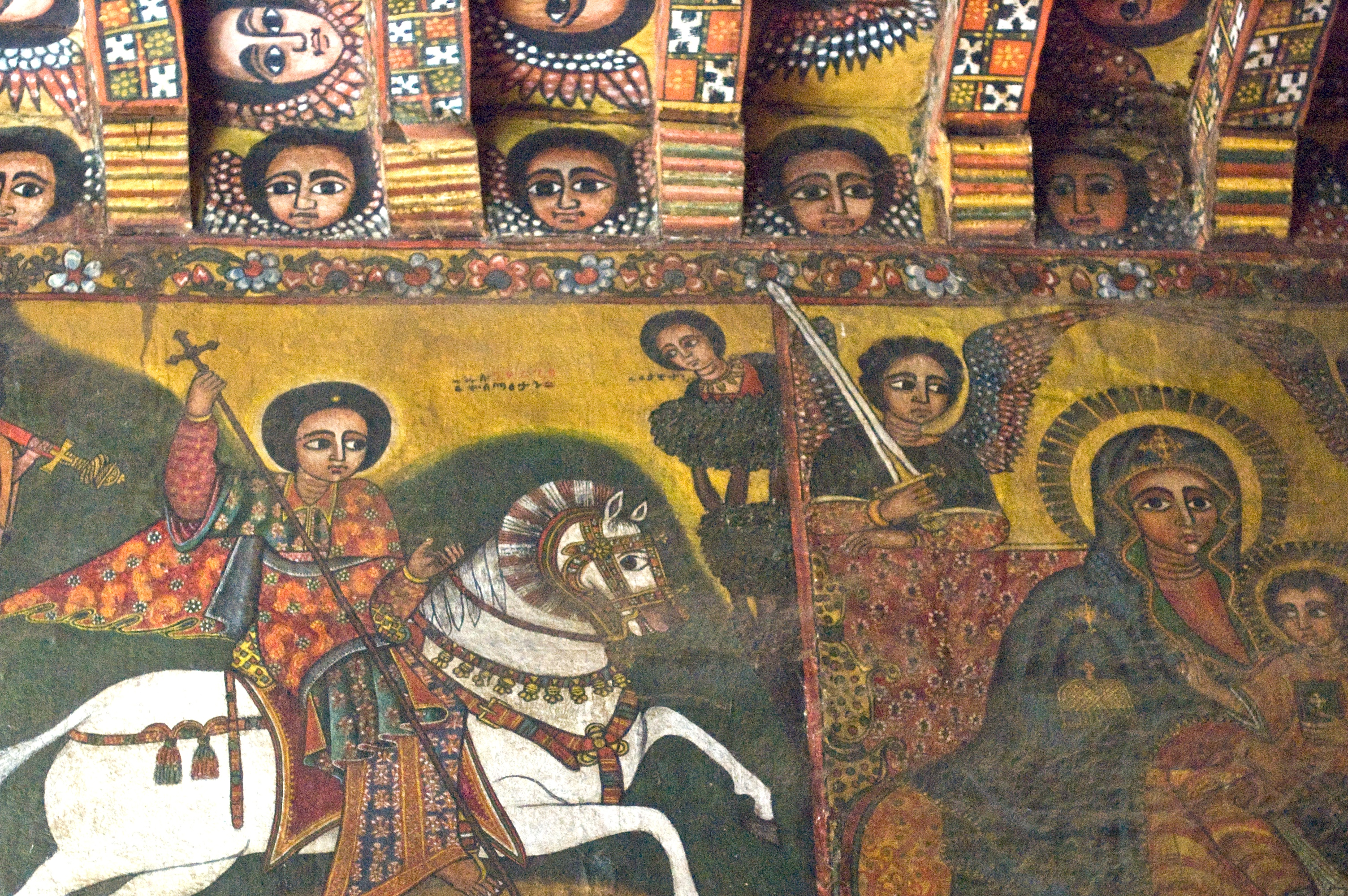 I believe the figure on the left is St. George, Ethiopia's patron saint. One clue is the figure in the tree to the right of the horse. Unless I wasn't paying close enough attention and got it wrong, we were told this figure, which always appears in a tree in Ethiopian paintings of St. George, represents Ethiopia. The figures on the right are the Virgin Mary and Jesus. Church of Debra Berhan Selassie, Gondar, Ethiopia. Emperor Iyasu the Great, a grandson of Emperor Fasilides, built the Church of Debra Berhan Selassie, which means "The Light of the Trinity" in Amharic. Emperor Iyasu ruled from 1682 until his assassination in 1706. According to the website : A plain, thatched, rectangular structure on the outside, the interior of Debra Berhan Selassie is marvelously painted with a great many scenes from religious history. The spaces between the beams of the ceiling contain the brilliant wide-eyed images of more than eighty angels faces - all different, with their own character and expressions. The north wall, in which is the holy of holies, is dominated by a depiction of the Trinity above the crucifixion. The theme of the south wall is St Mary; that of the east wall the life of Jesus. The west wall shows important saints, with St George in red-and-gold on a prancing white horse.